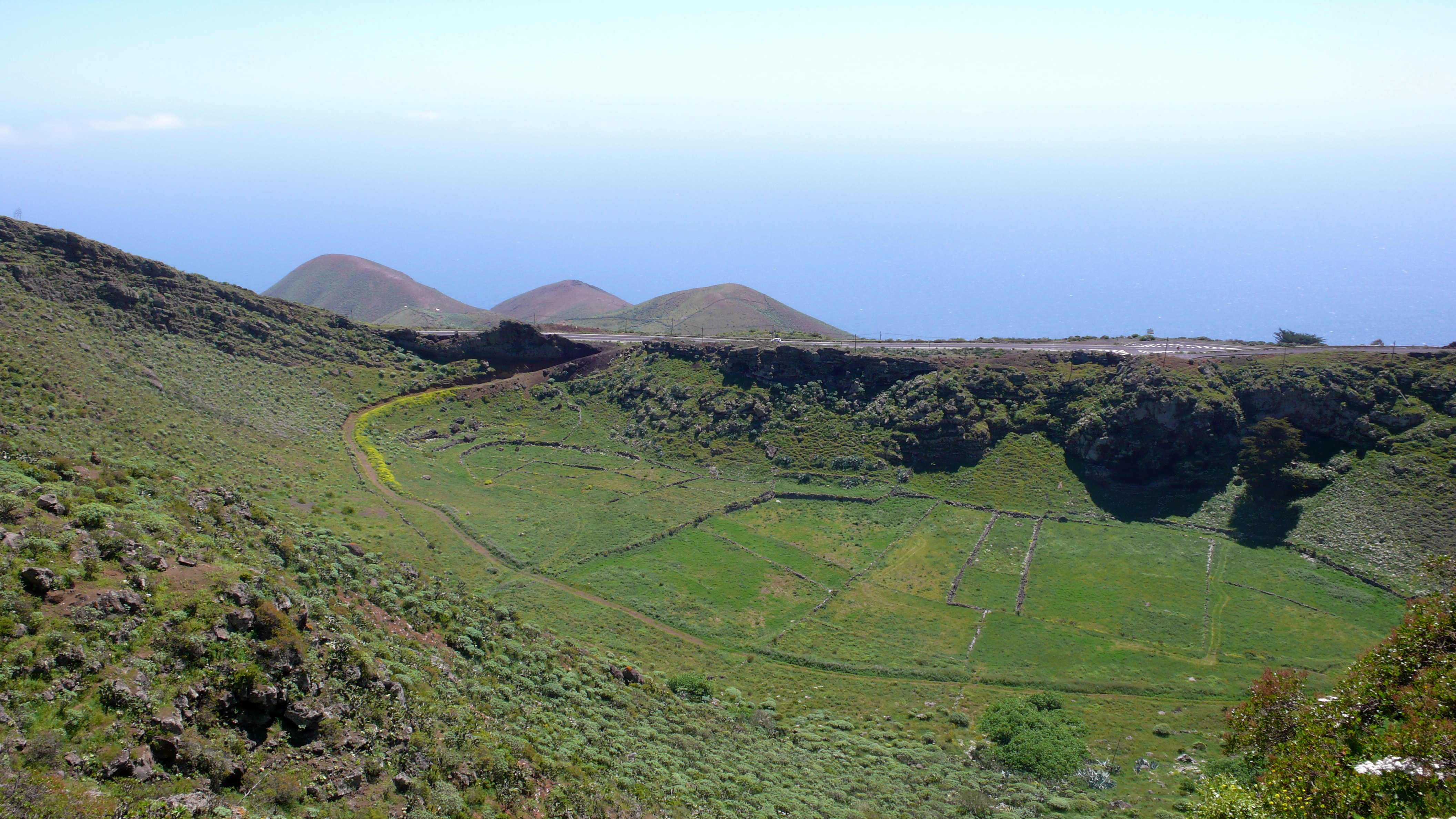 "La Caldera" natural crater/caldera near Valverde, El Hierro, in 2009 – Site of the upper reservoir of the Gorona del Viento wind-hydro system, built ca. 2010/11.